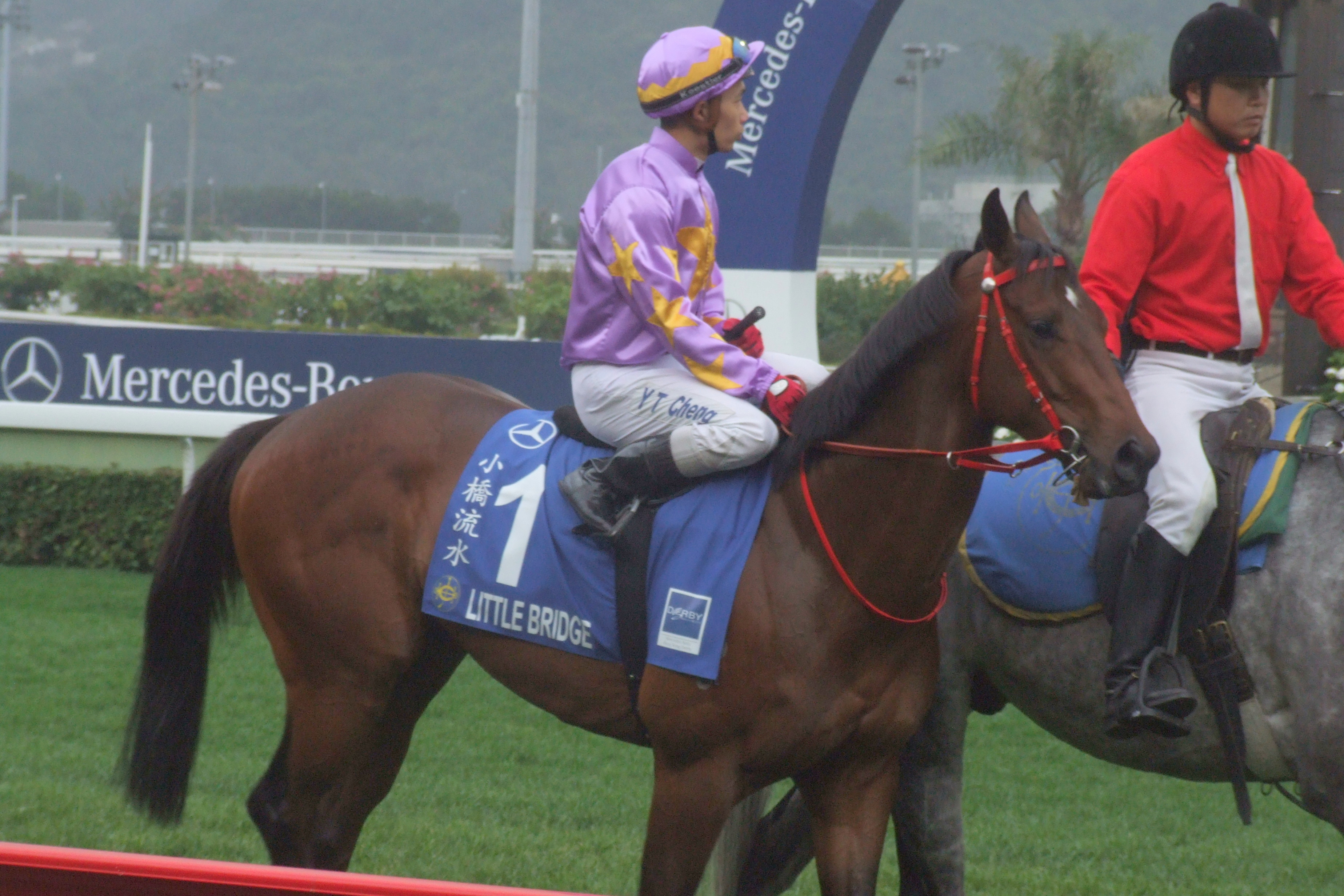 Little Bridge starts at Hong Kong Derby